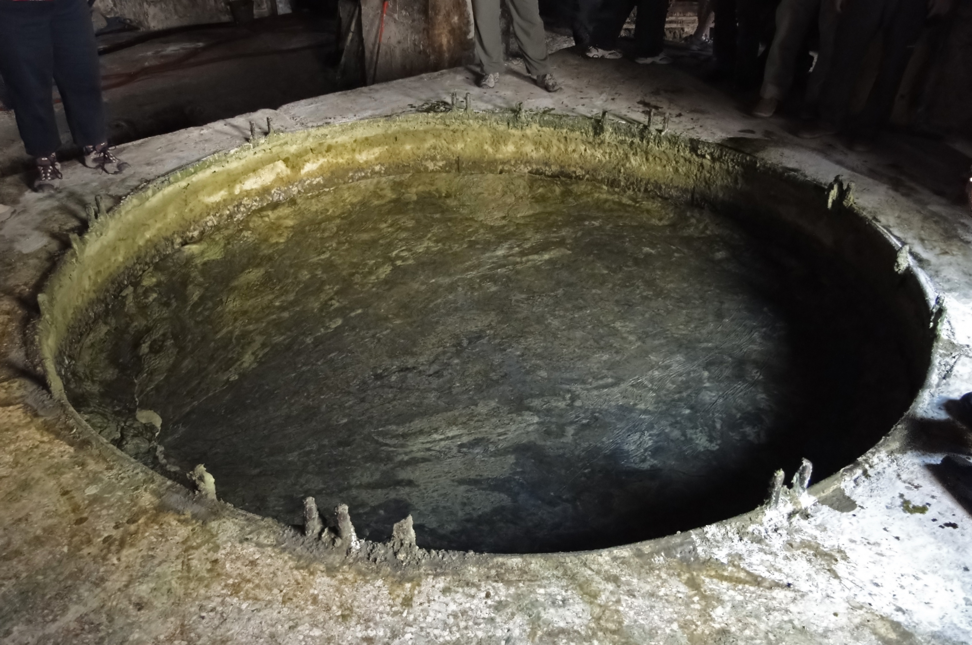 Vat of Aleppo soap at the Al-Jebeili factory, Aleppo, Syria